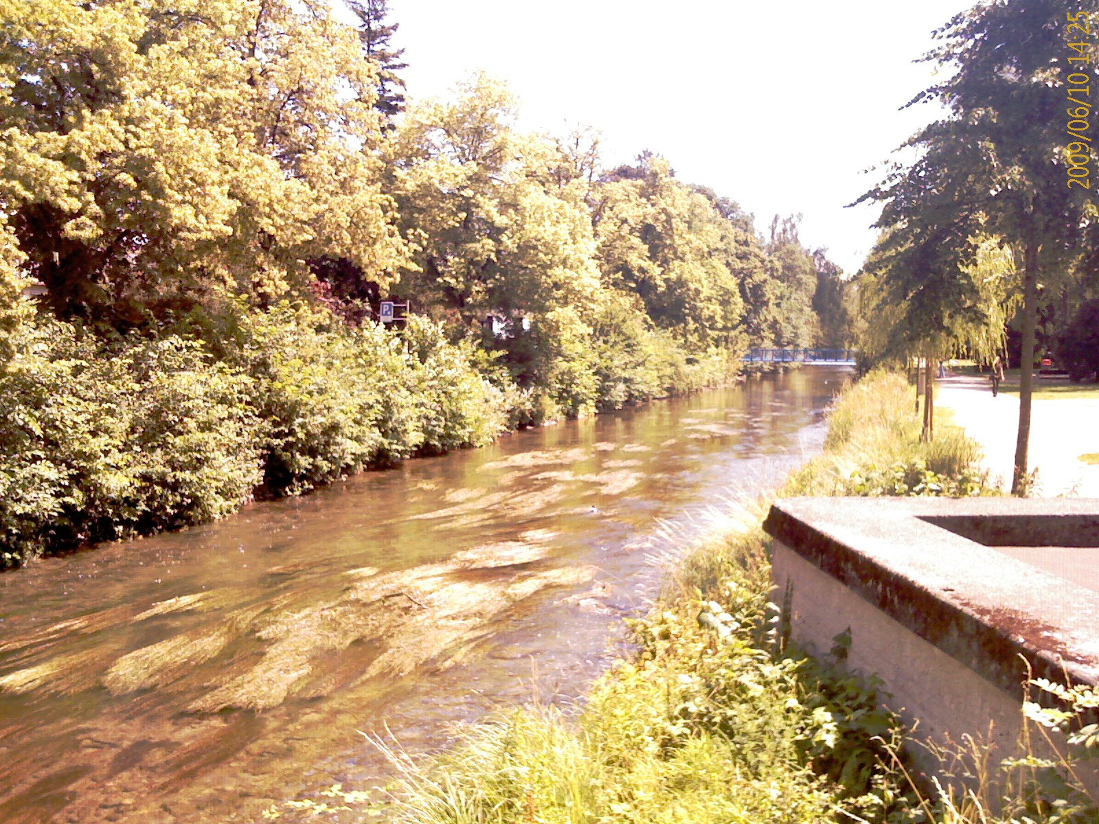 Glatt at Dübendorf, canton of Zürich, SwitzerlandEsperanto: Glatt en Dübendorf, Kantono Zuriko, Svislando